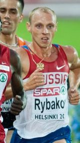 Yevgeniy Rybakov during 2012 European Championships in Athletics in Helsinki